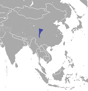 Chinese Shrew (Sorex sinalis) range